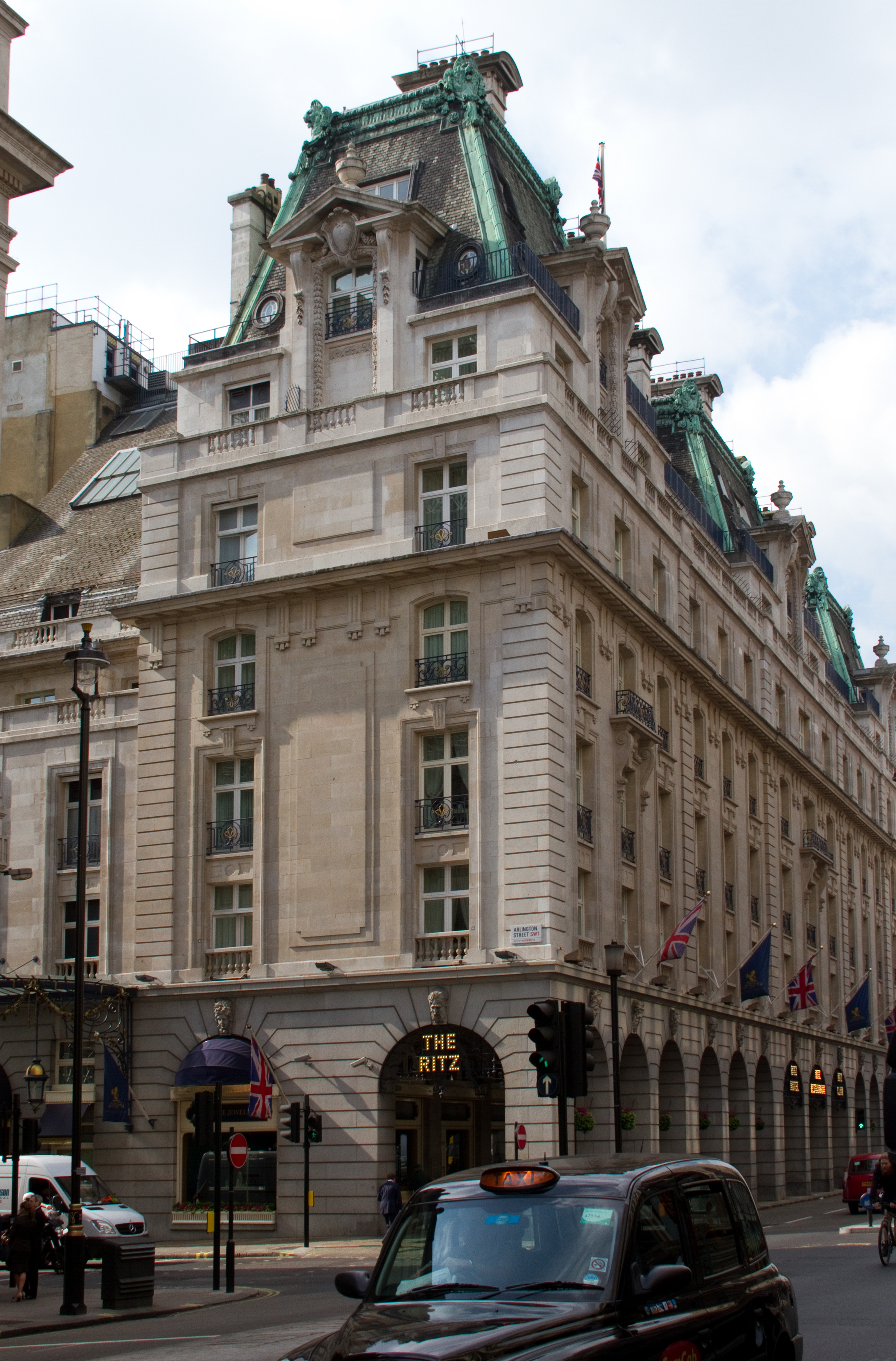 The Ritz